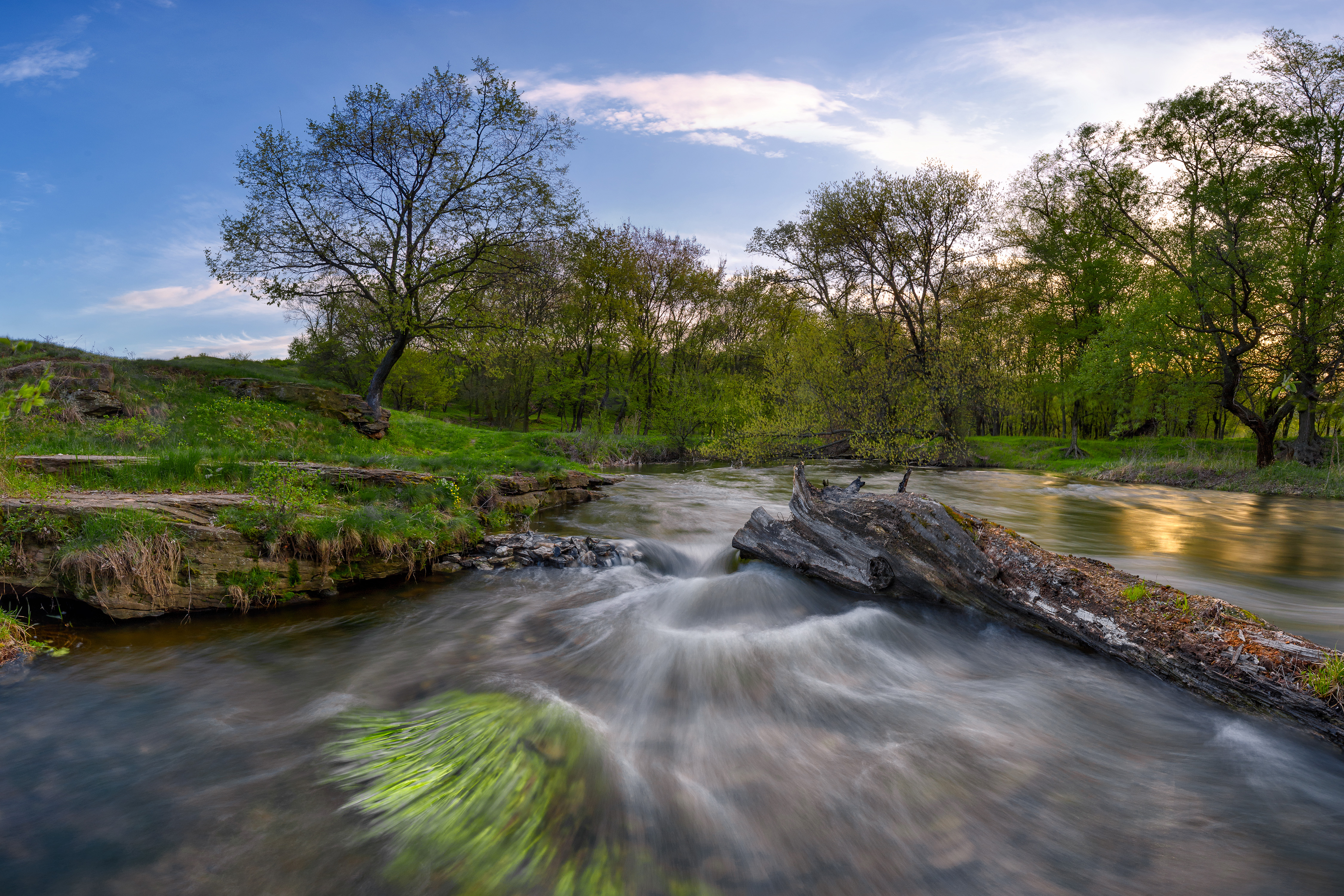 Zuiivskyi regional landscape park